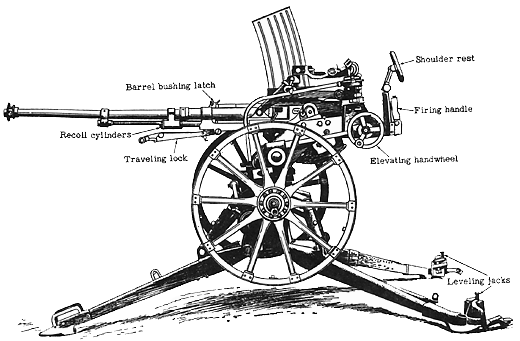 Japanese Type 98 20 mm AA Machine Cannon. From the Second World War.